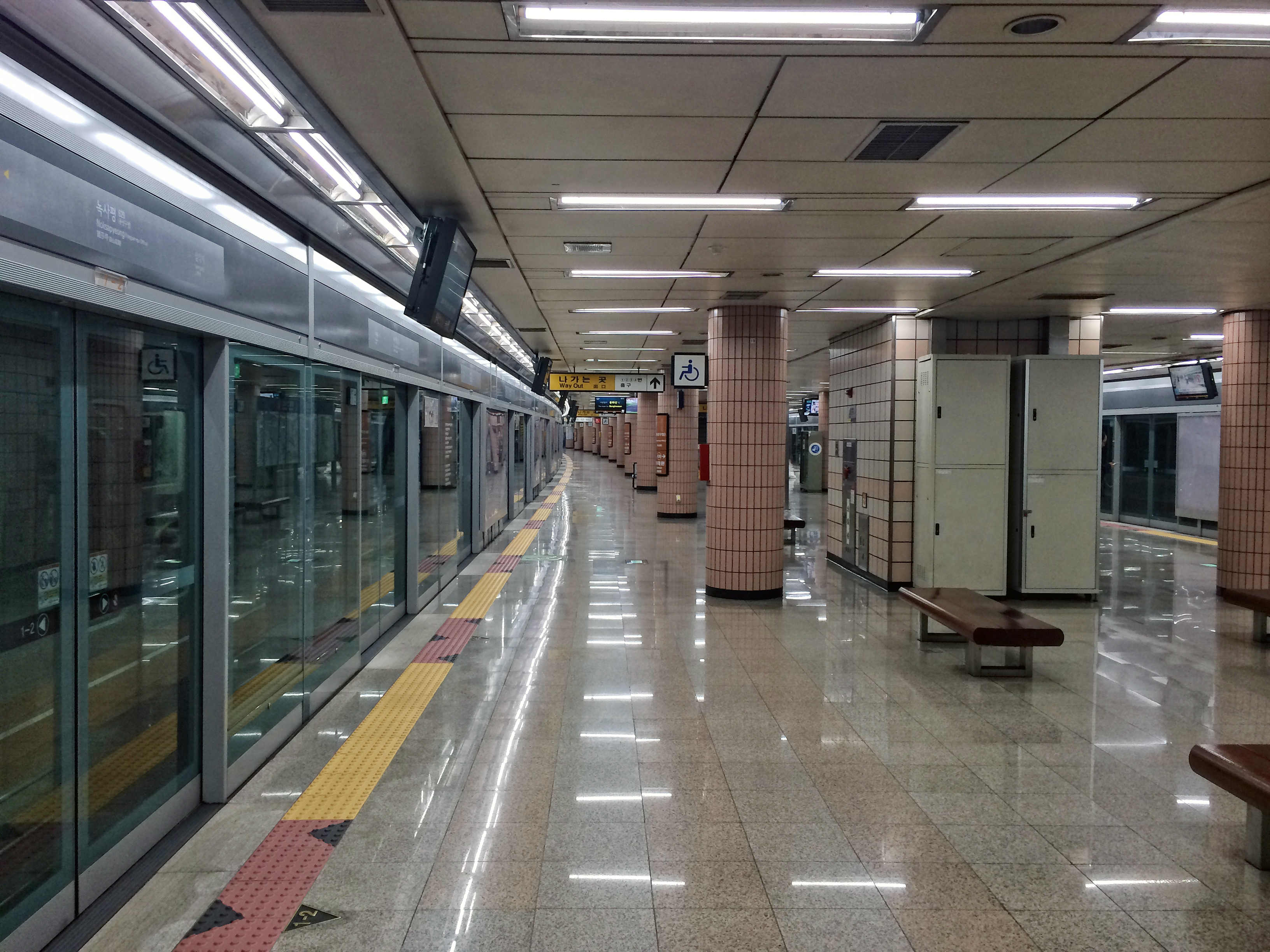 Platform of Noksapyeong (Yongsan-gu Office) Station